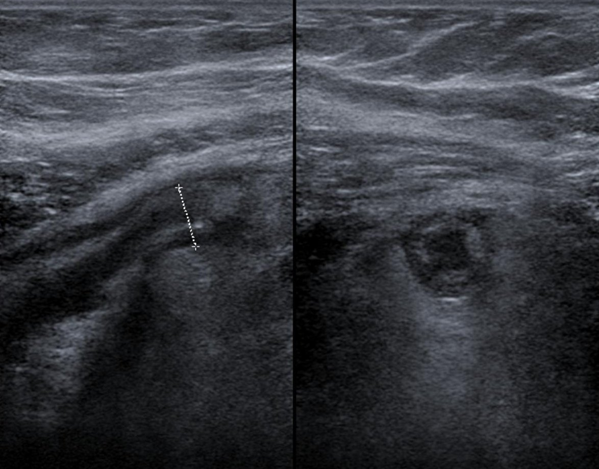 Typical sonogram of appendicitis.